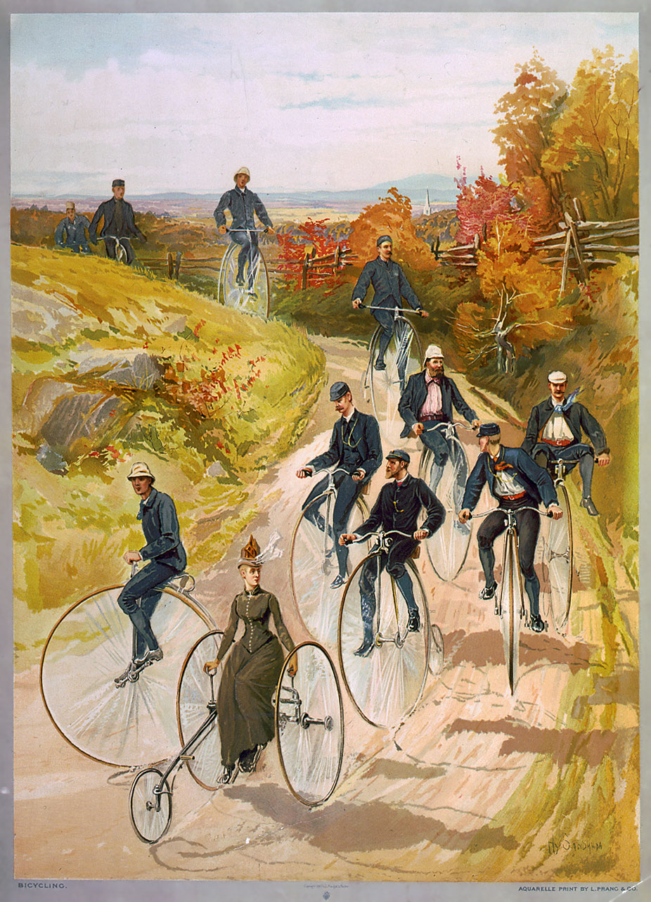 "Bicycling", a ca. 1887 color print showing one of the few ways in which it was socially acceptable for women to ride cycles, in the years before the invention of "safety bicycles" and the woman's "bicycle suit" (see Image:Ausfahrt im Sociable um 1886 - Verkehrszentrum.JPG for another example, or compare Image:Ellimans-Universal-Embrocation-Slough-1897-Ad.png to see the radical change in the way that women went cycling over a period of just ten years). The print shows a number of men riding big-wheel or "penny-farthing" bicycles, while a woman is riding a three-wheeled cycle, which appears to be steered by a rod going from the lever under her right hand along the boom to the front wheel. The woman is probably riding in front partly for the reason that if she rode in back, the men would constantly have to be looking behind them, to make sure that they didn't quickly open up large gap by going much faster than she could. Note how the man on the far right has his legs over the handlebars as he descends the hill to ensure that, should the large front wheel of the bicycle he is riding hit a rock, be caught in a rut or otherwise become unable to turn, he would be thrown off feet first, as opposed to head first ("taking a header") if seated with his feet on the pedals.